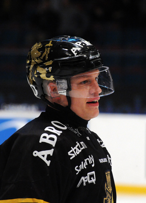 Slightly cropped photo of Swedish ice hockey player Patric Blomdahl.